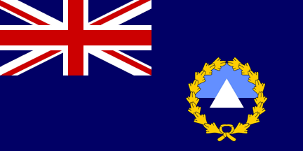 The defaced blue enign of the Little Ship Club, London, United Kingdom